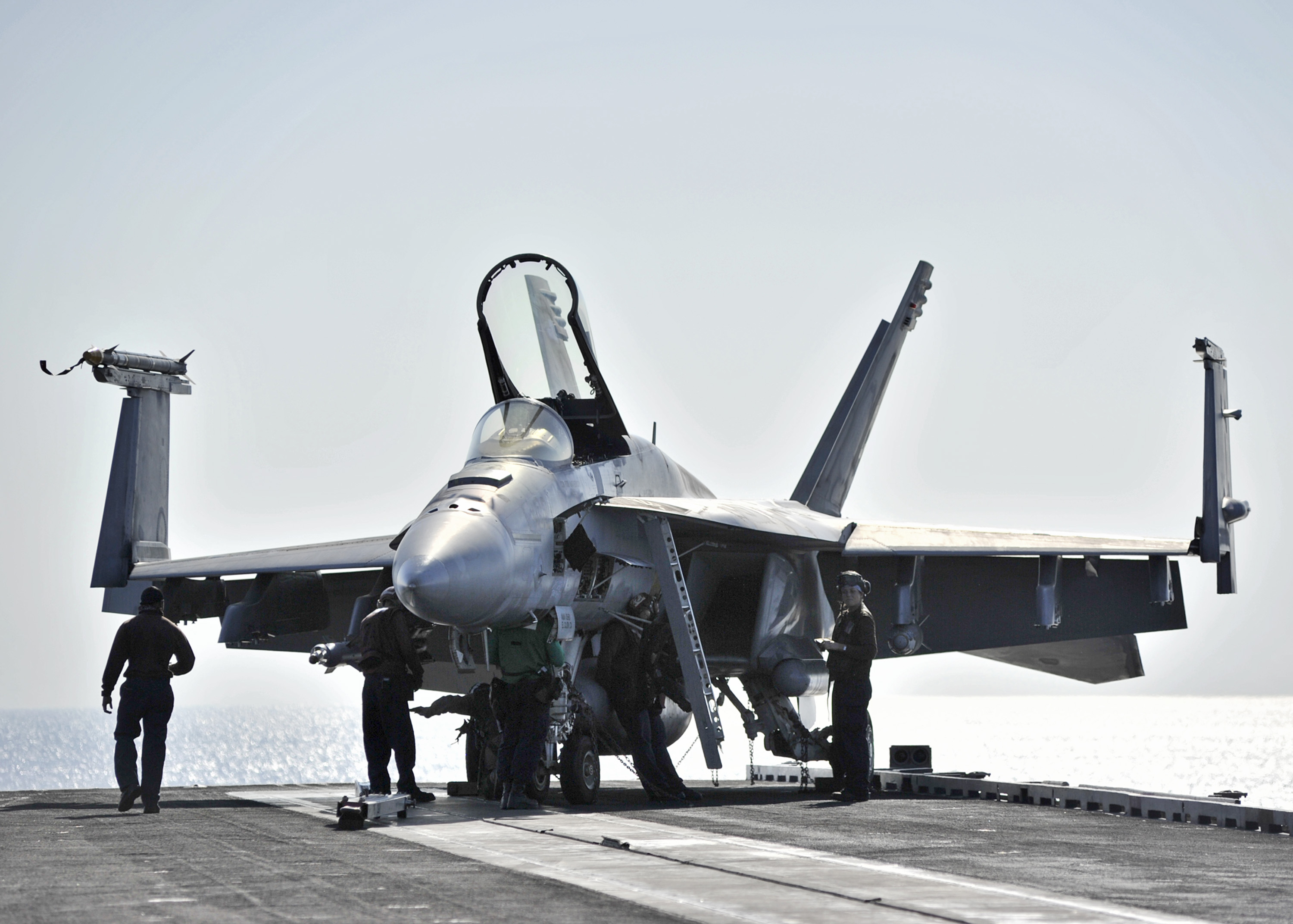 ARABIAN SEA (Nov. 22, 2010) Sailors ready an F/A-18E Super Hornet for afternoon flight operations aboard the aircraft carrier USS Harry S. Truman (CVN 75). The Harry S. Truman Carrier Strike Group is deployed supporting maritime security operations and theater security cooperation efforts in the U.S. 5th Fleet area of responsibility. (U.S. Navy photo by Mass Communication Specialist 2nd Class Kilho Park/Released)